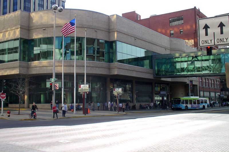 The STA Plaza in Downtown Spokane.